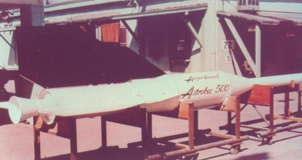 Astrobee-500 sounding rocket